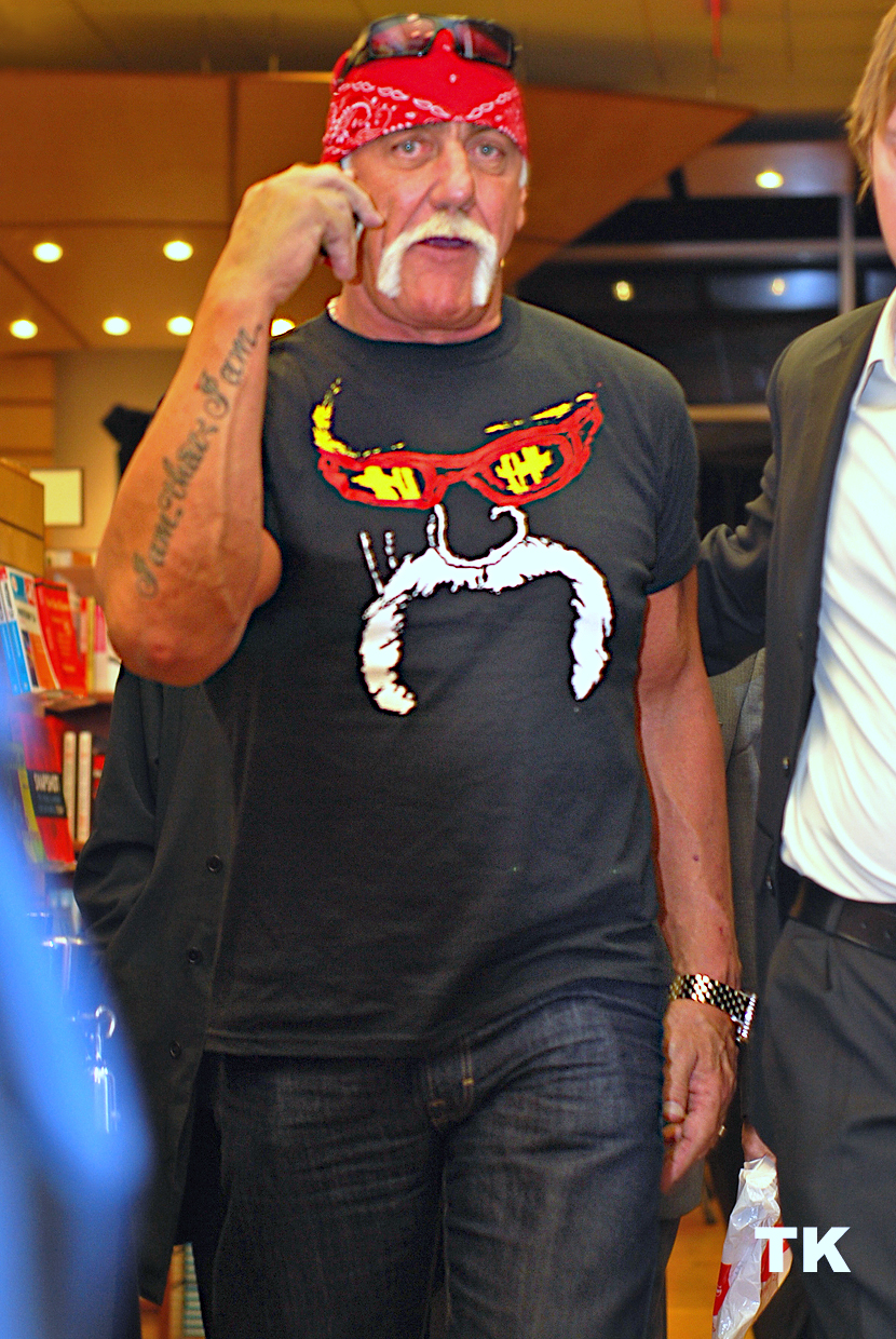 Hulk was finished signing autographs at this point. This is a better picture than the first one, but I still had to touch it up a bit.